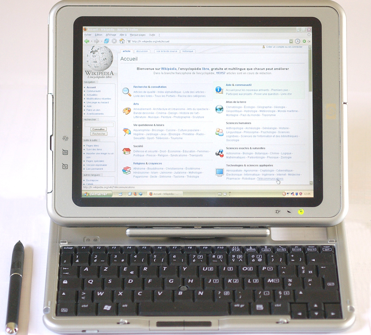 Tablet-PC HP TC-1100; Personal picture